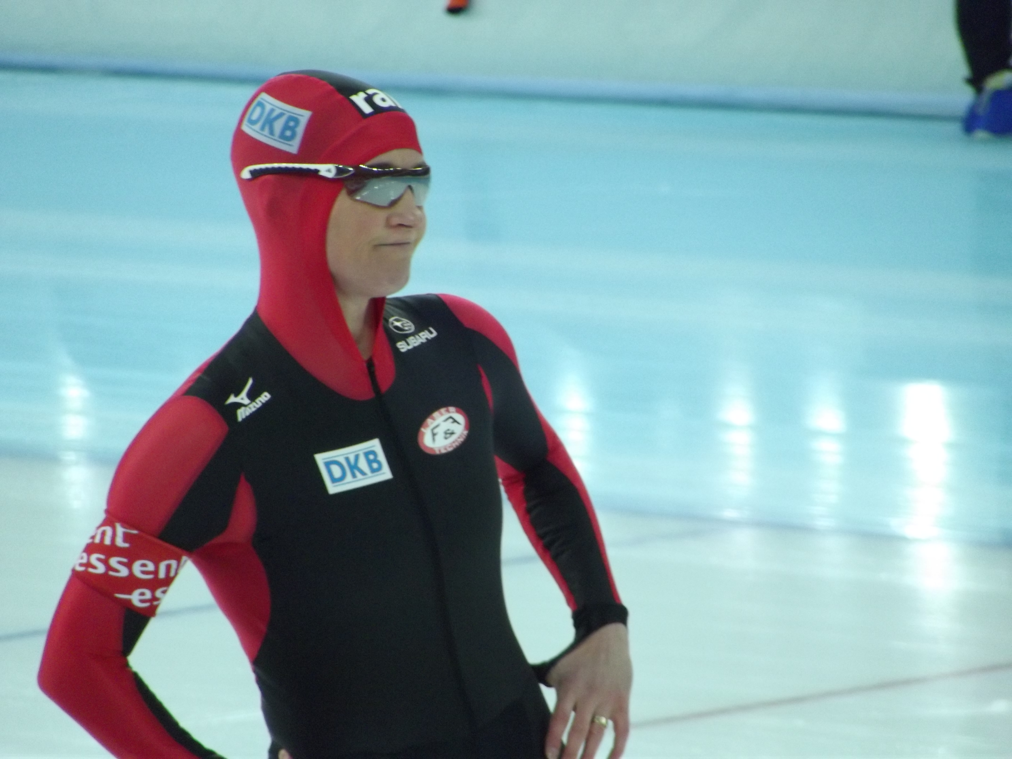 2013 World Single Distance Speed Skating Championships